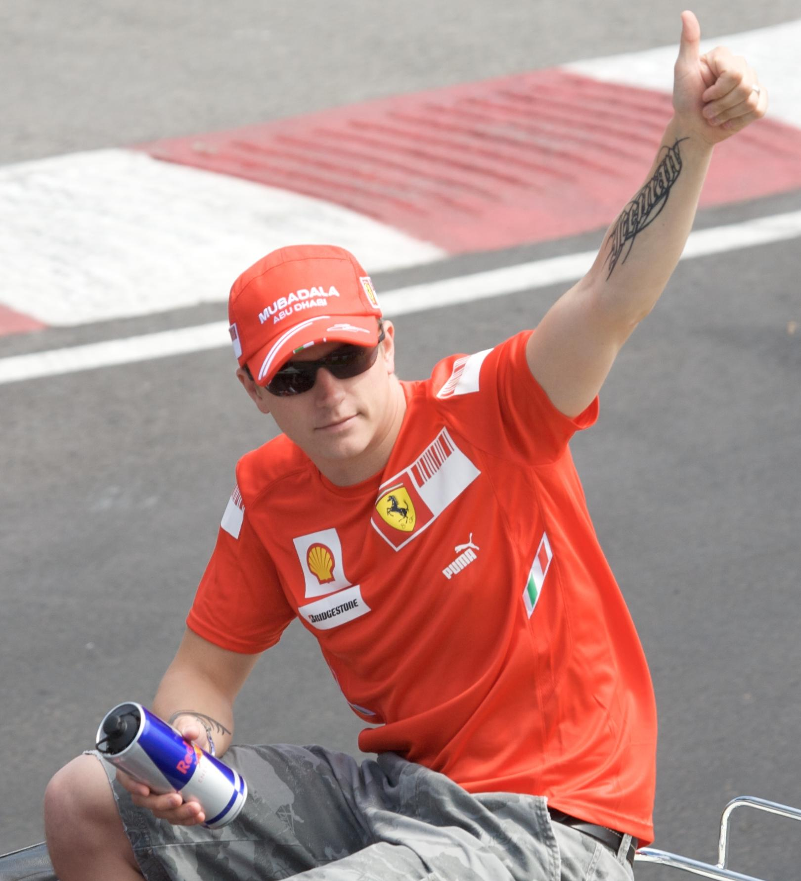 Kimi Räikkönen at the 2008 Canadian Grand Prix.